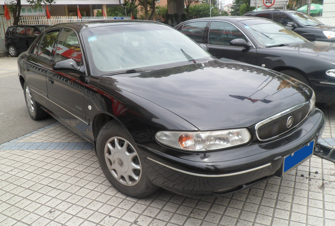 Buick "New Century" photographed in Shanghai, China.